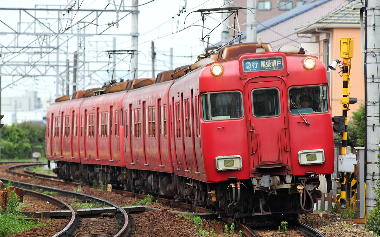 Meitetsu 6750 series EMU between Yada Sta. and Moriyama-Jieitai-Mae Sta.